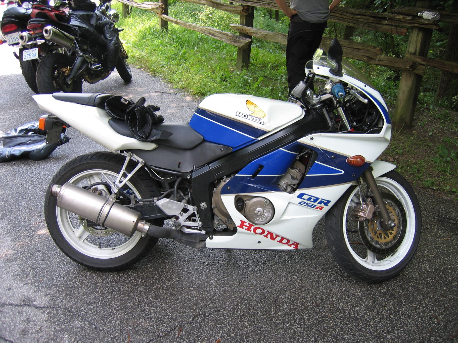 Badass little CBR250R.